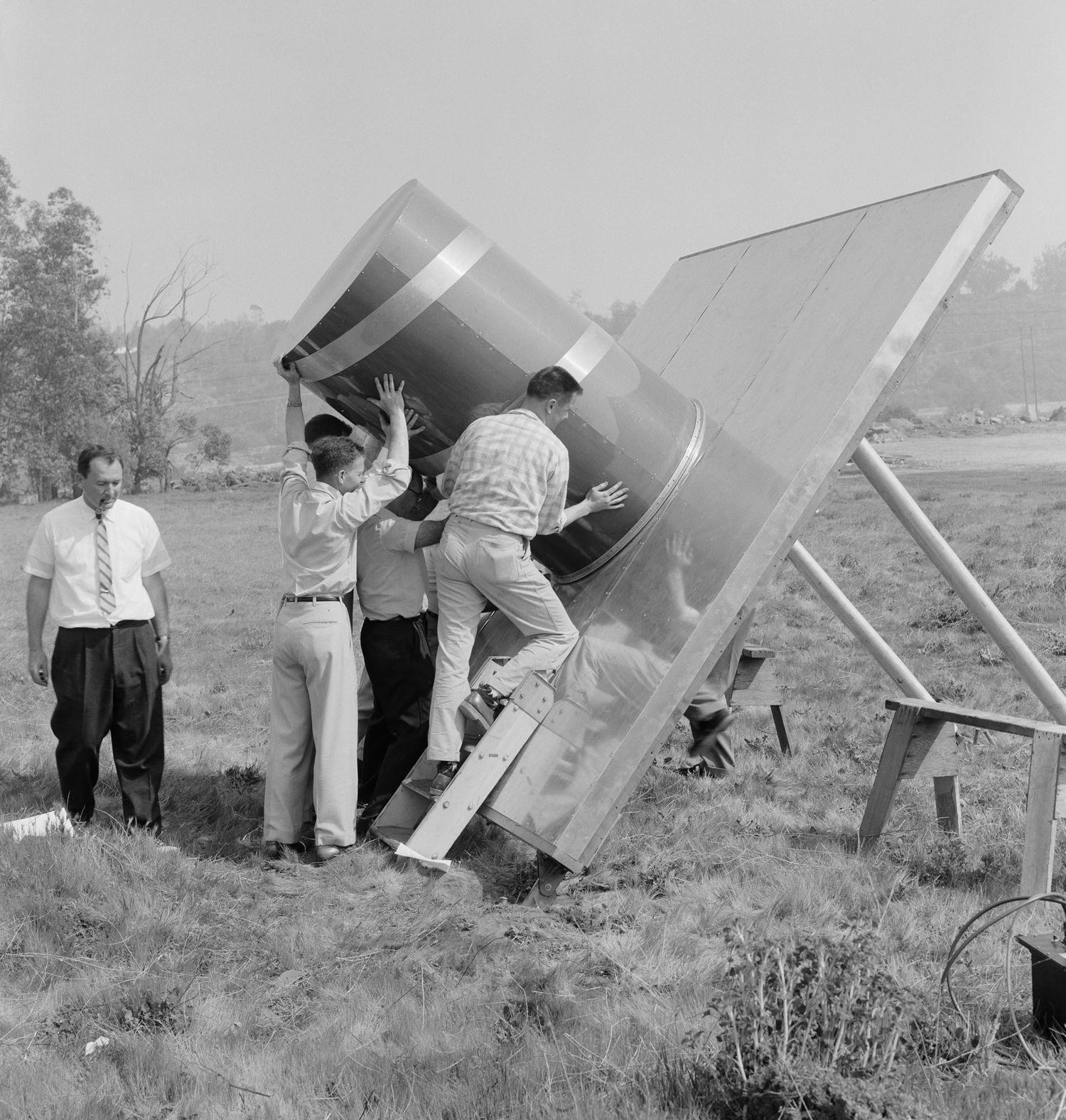 On March 22, 1956, preliminary satellite tracking tests began in a field near JPL. The antenna is being assembled in the photo above. The prototype Microlock ground receiving station included the antenna, instrumentation built into a 25-foot van, generators, and other equipment. Less than two years later, the Microlock receiving station helped tracked the successful orbit of Explorer 1. Photo number 331-2426A